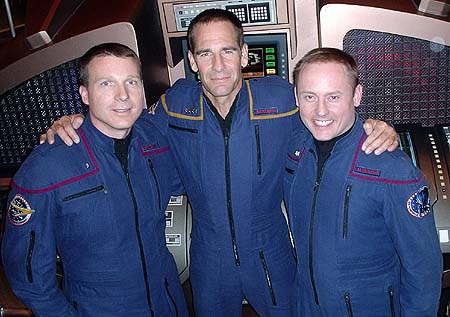 Astronaut Terry Virts, left, Actor Scott Bakula and Astronaut Mike Fincke, right, beam on the set of Star Trek's final Enterprise voyage. Credit: NASA